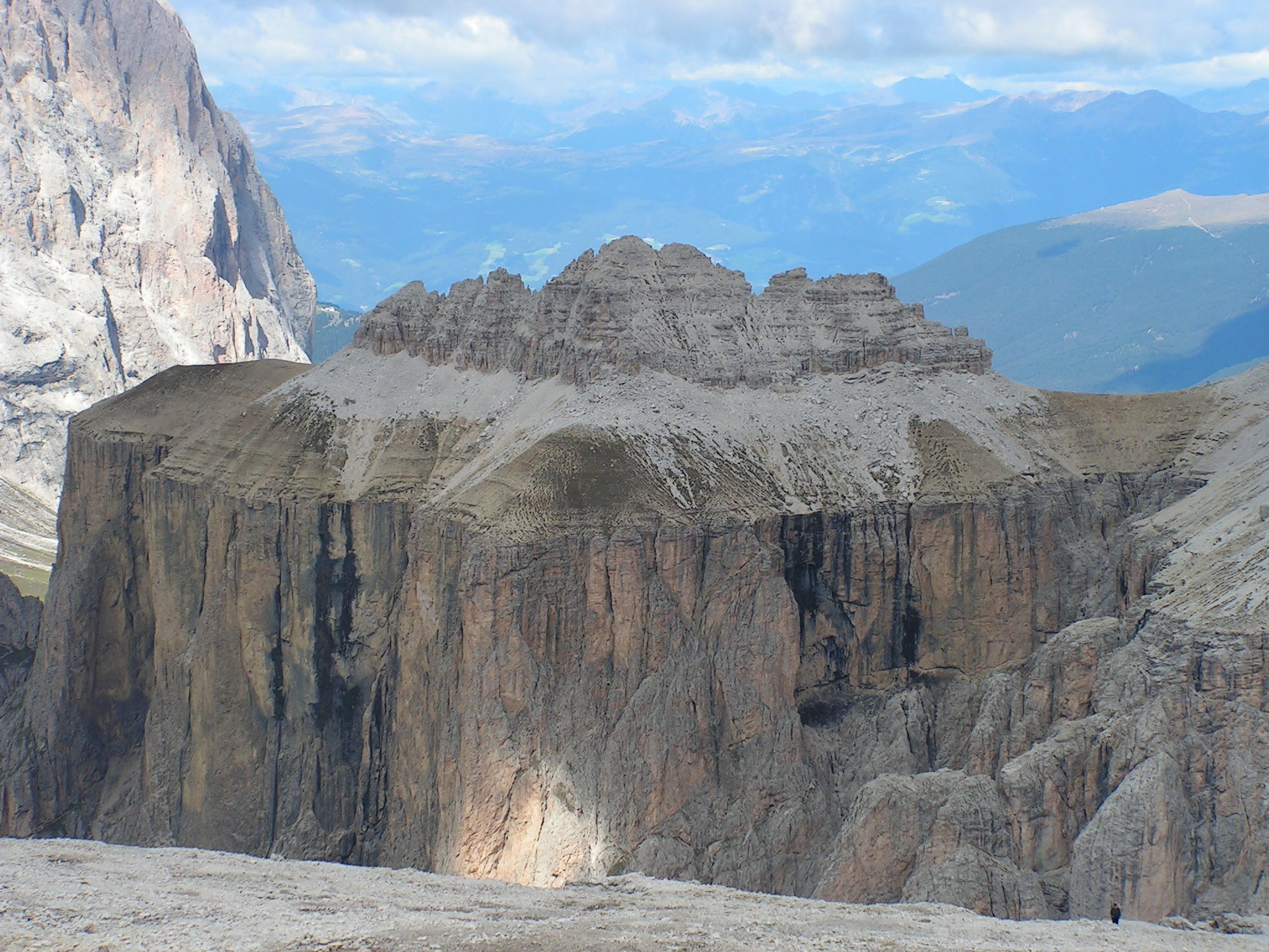 Piz Ciavazes (2.831 m) on the Sella group, Dolomites (Italy)